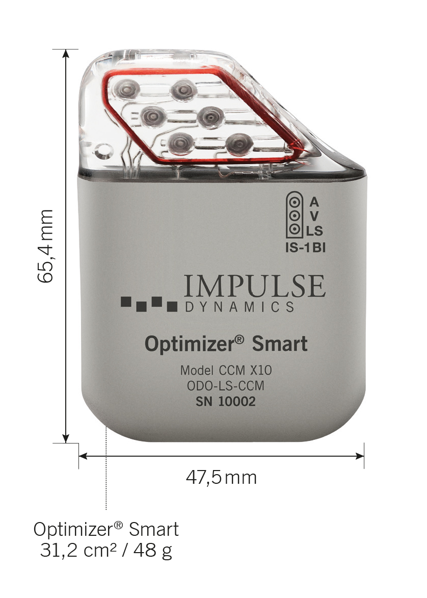 Optimizer® Smart Active Implantable Pulse Generator (IPG) by Impulse Dynamics, intended for the treatment of heart failure through delivery of CCM™ signals.